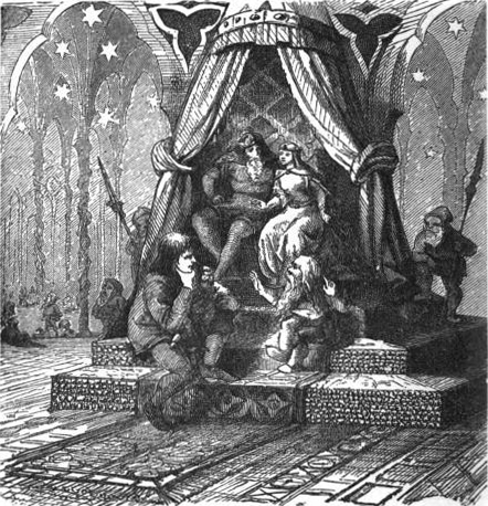 Kuno listens to an old dwarf's tale before the throne of King Goldemar, king of the dwarfs.